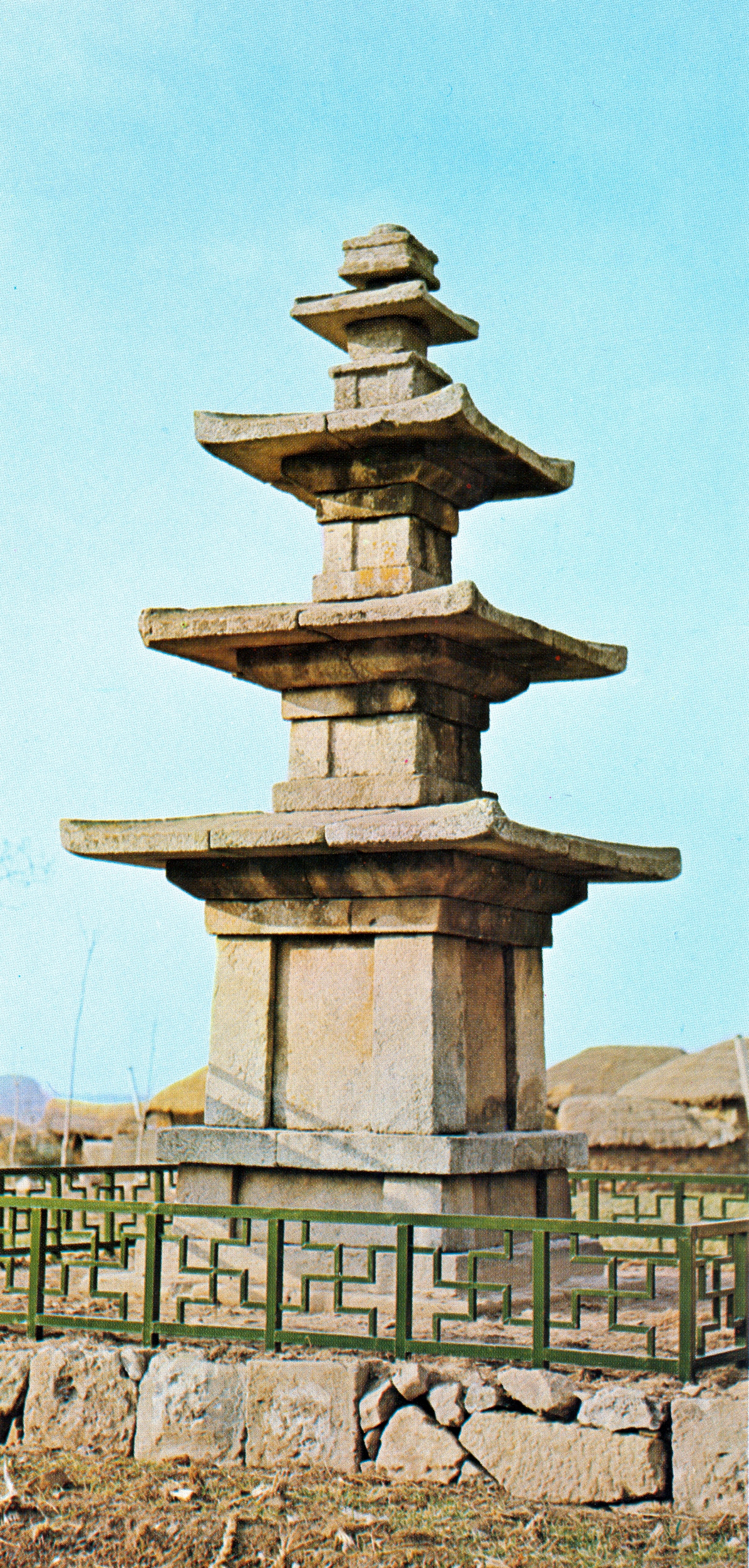 Five-story Stone Pagoda at Seongbuk-ri in Seocheon, Korea